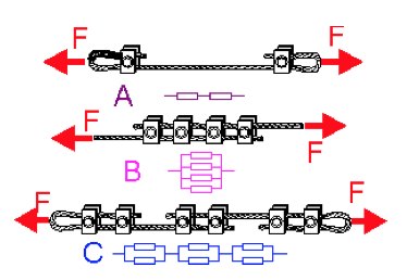 Series, Parallel, and Combined Systems demonstrate different level of redundancy. The models are subject of study in reliability and safety engineering.